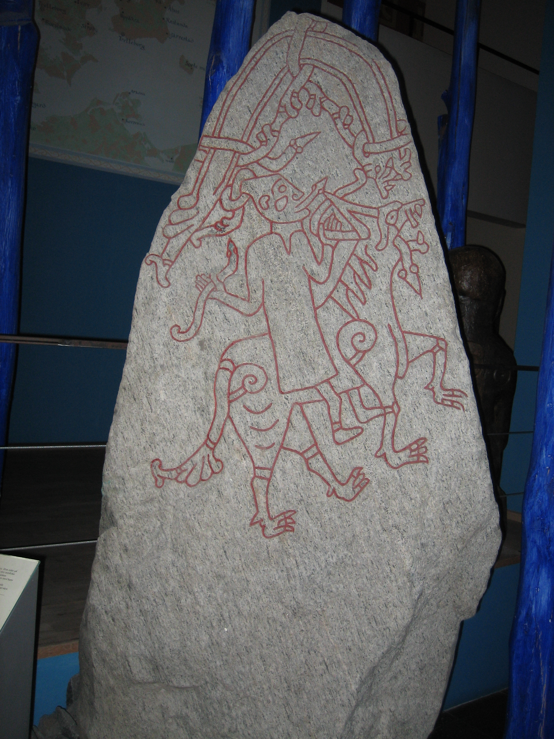 Rune stone (without runes = picture stone) DR 284 from the Hunnestad monument currently at display in Kulturen, Lund, Sweden (September 2008). Photo taken by the uploader 080903. It s believed that the depicted creatures are the giant Hyrrokkin riding on her wolf.